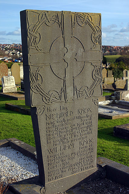 The grave of Archibald Knox. The final resting place of one of the most famous Manxmen: the artist and designer Archibald Knox. In New Kirk Braddan cemetery.